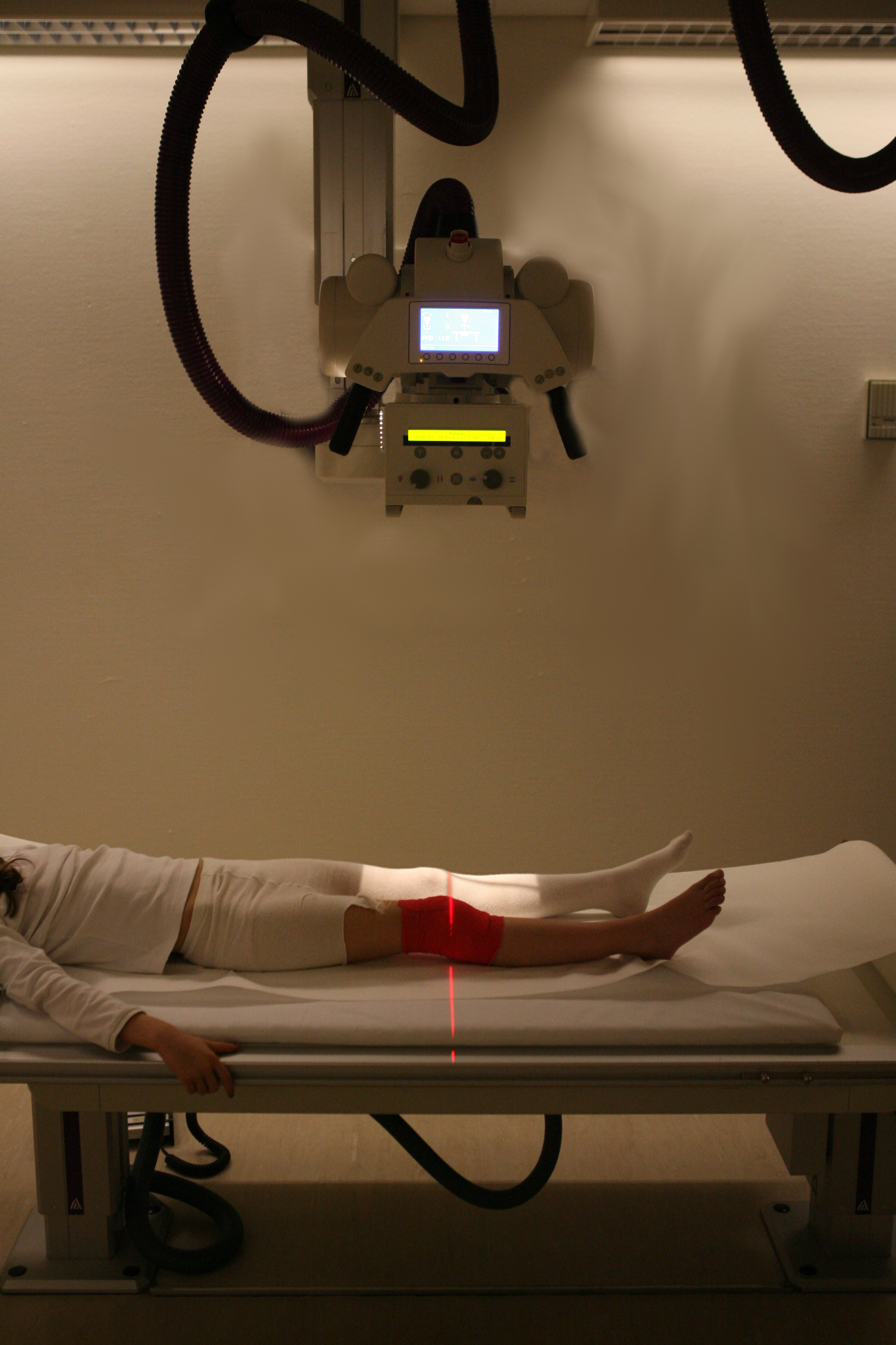 Radiography of knee in modern x-ray-machine at Sandnessjøen Hospital, Norway. The patients knee is examined to check for possible bone fractures after an injury.